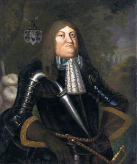 Władysław Denhoff